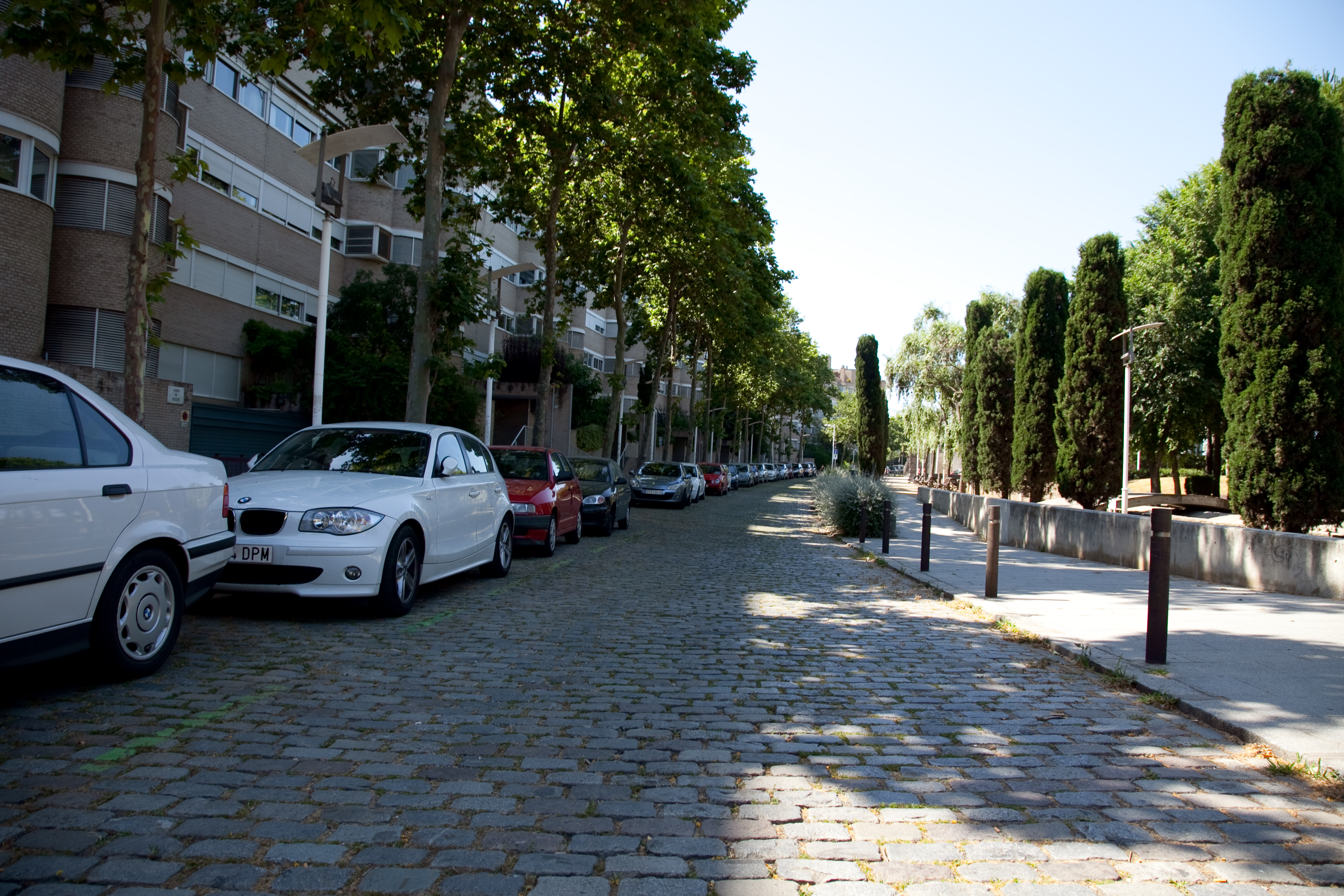 Moskow Street, Olympic Village Barcelona